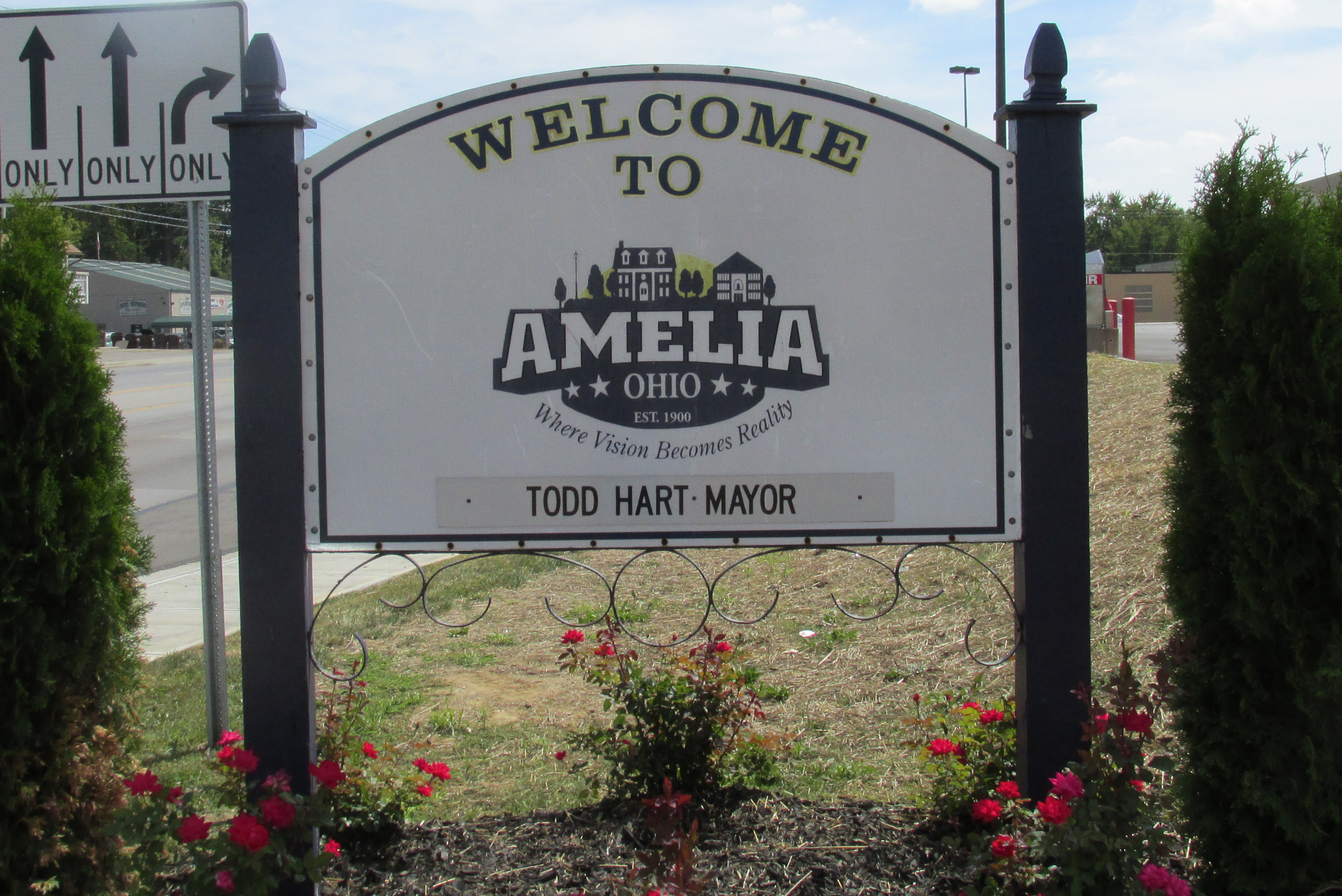 Amelia, Ohio community sign.